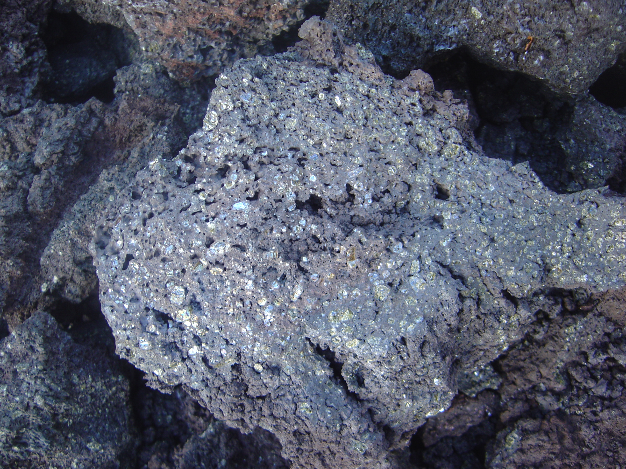 Oceanite (basalt rich in olivine) found in the Grand Brûlé (southeastern slopes of the Piton de la Fournaise) on Réunion Island